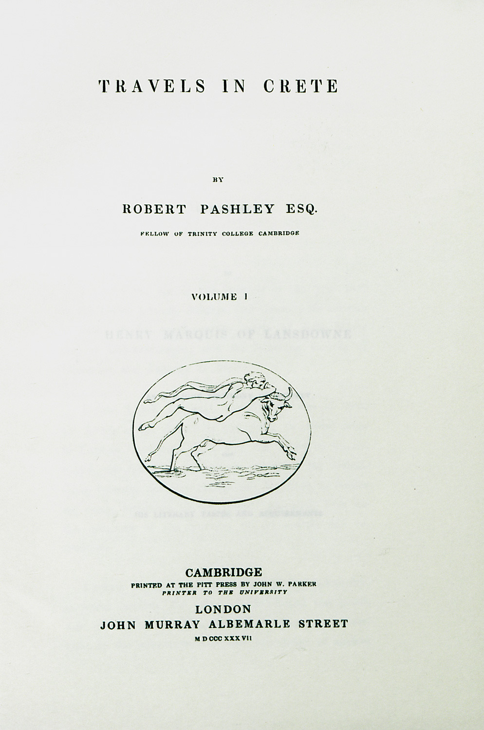 Illustration from Travels in Crete, London, John Murray, 1837, by Robert Pashley